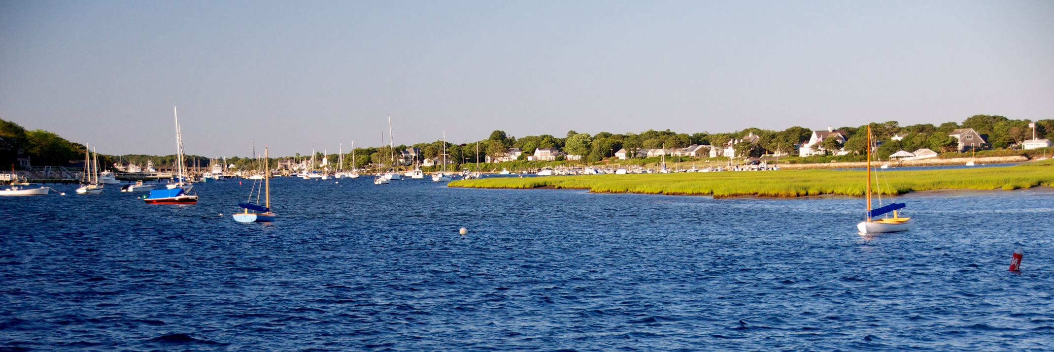 Looking up Bass River from just inside the mouth, showing the marsh (Stage Island) on the right as you sail upriver.